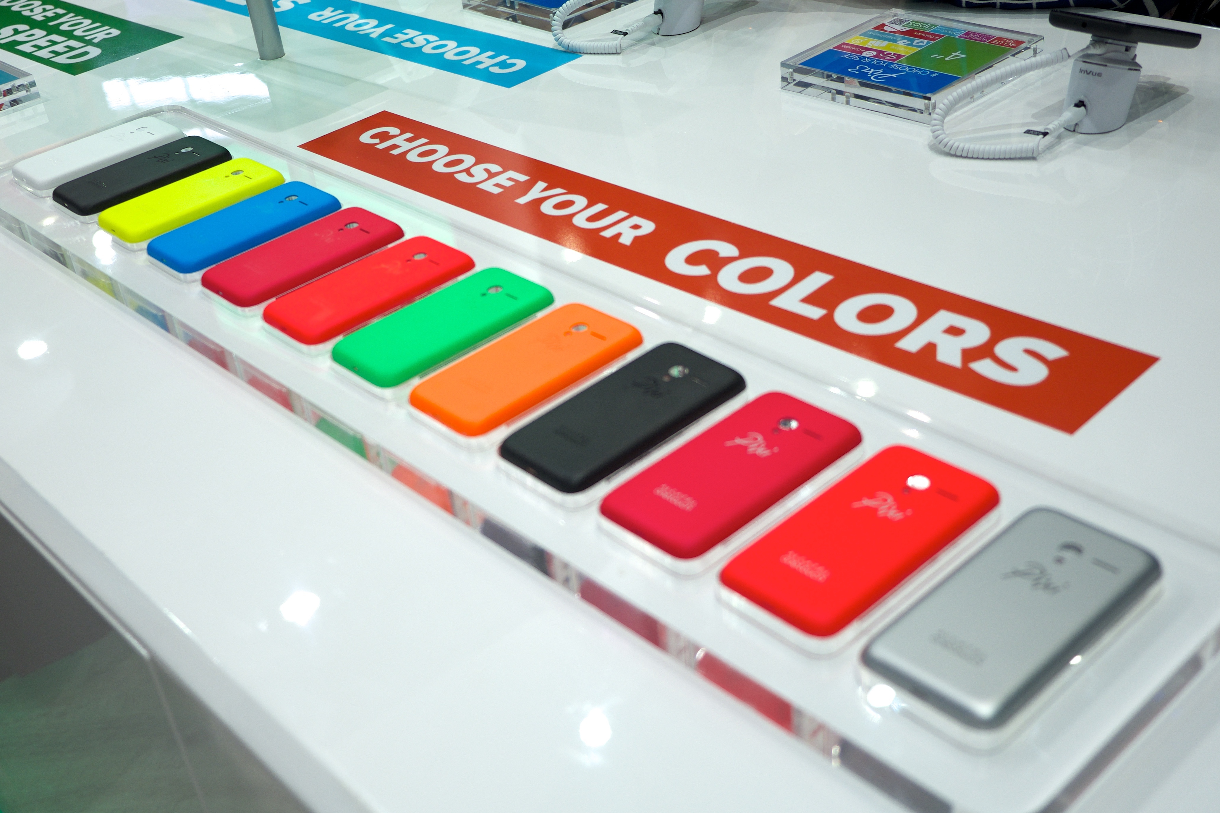 Alcatel Pixi 3 at Mobile World Congress 2015 Barcelona